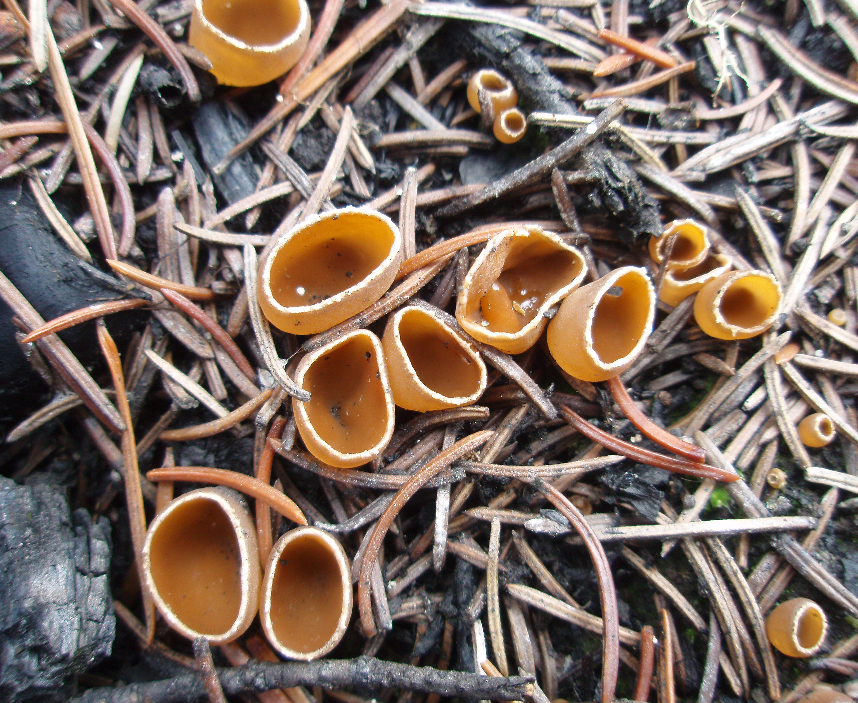 The charcoal loving eld cup, species Geopyxis carbonaria (Alb. & Schwein.). Photographed in Park County, Montana, USA. Notes: "Found in a burn area around 6000’. Trees in area were primarily Engleman spruce, Subalpine fir, Douglas fir, and Lodgepole pine. Found in June."